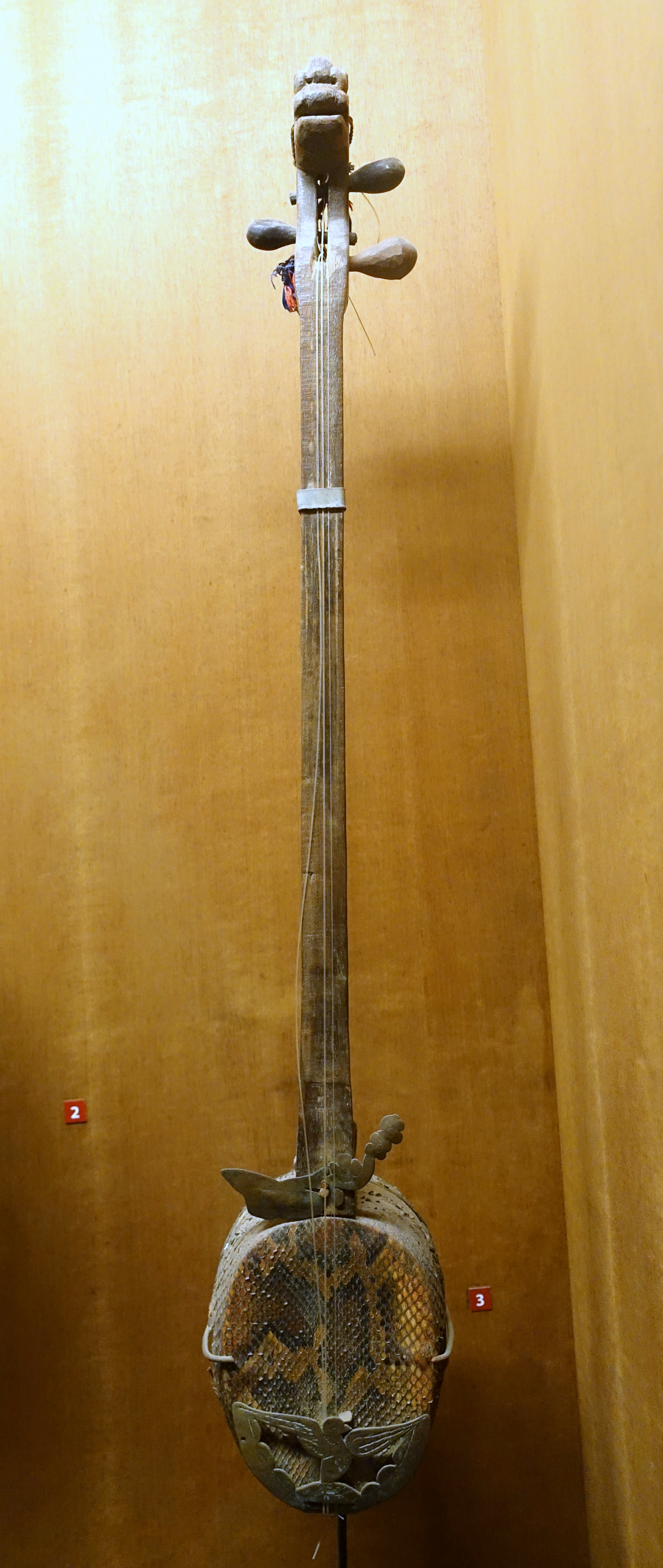 Exhibit in the Vietnam Museum of Ethnology - Hanoi, Vietnam.